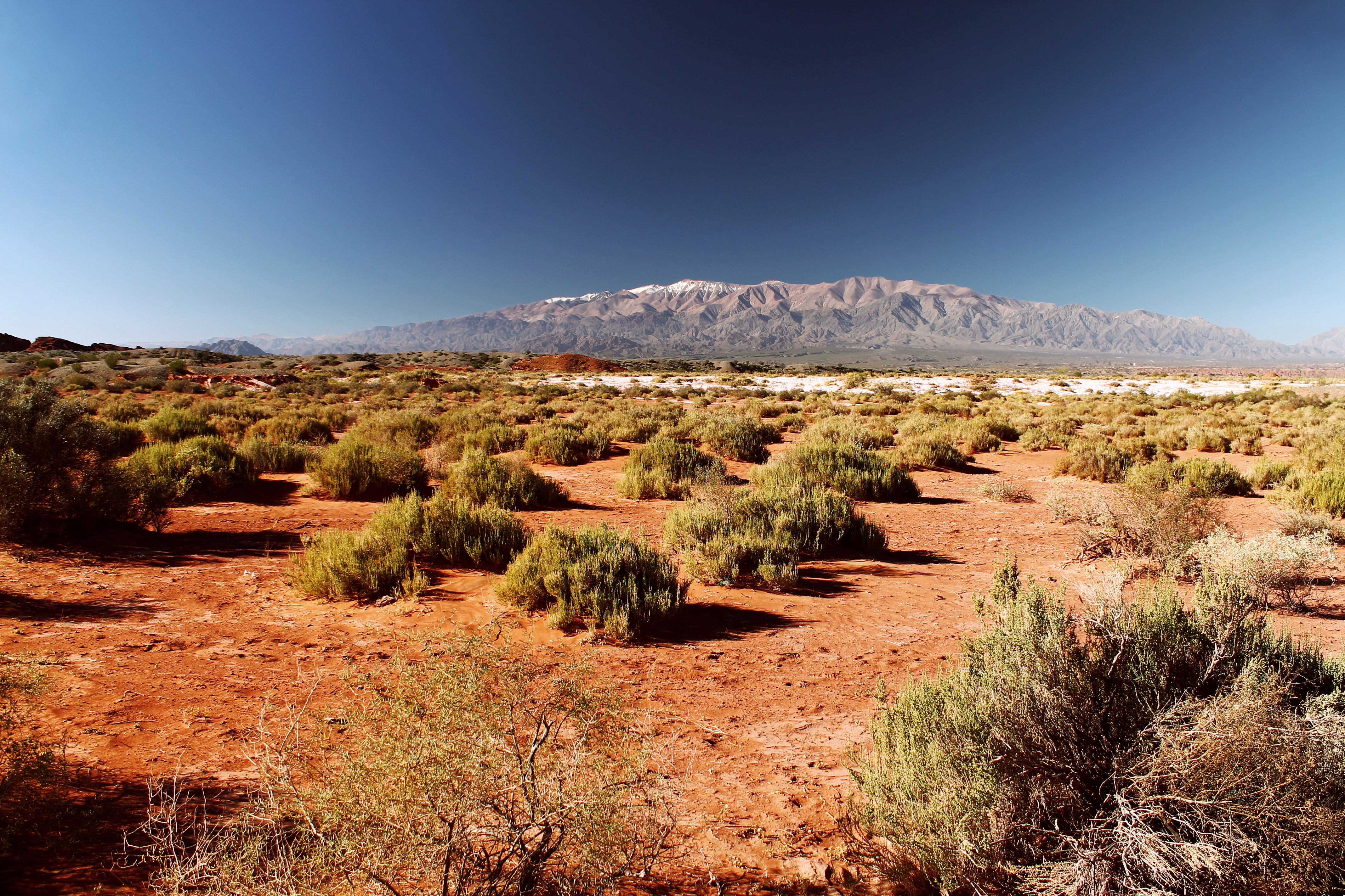 View of the Westen hillside of hill Famatina or Hill General Belgrano, since of the city of Banda Florida near Villa Unión, La Rioja Province. The photo was taken from about 40 km from the foot of such hill